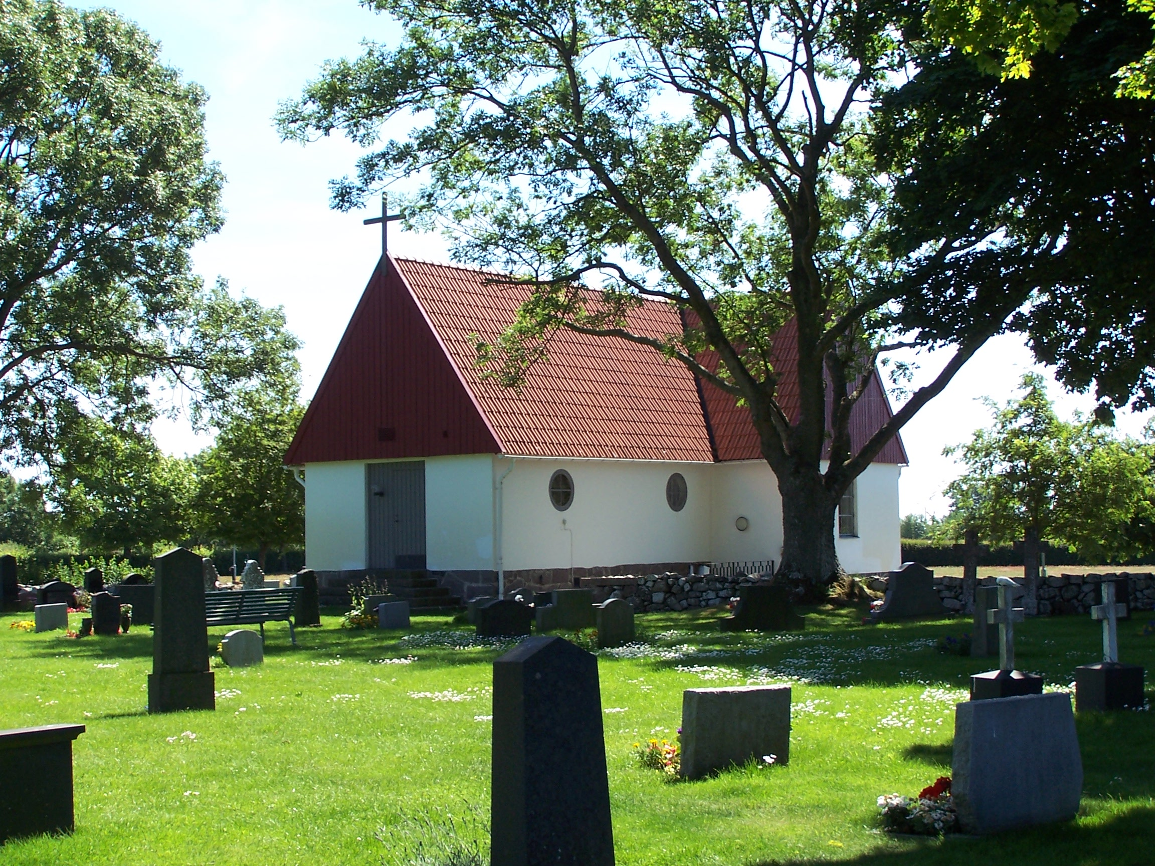 Avaskärs kapell (chapel) from northwest, Kristianopels församling (parish)